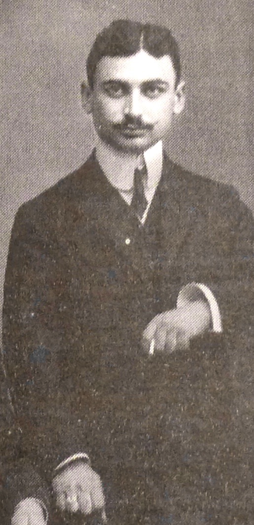 The German-American chemist and entrepreneur Dr. rer. nat. Hugo Bamberger (1887–1949)